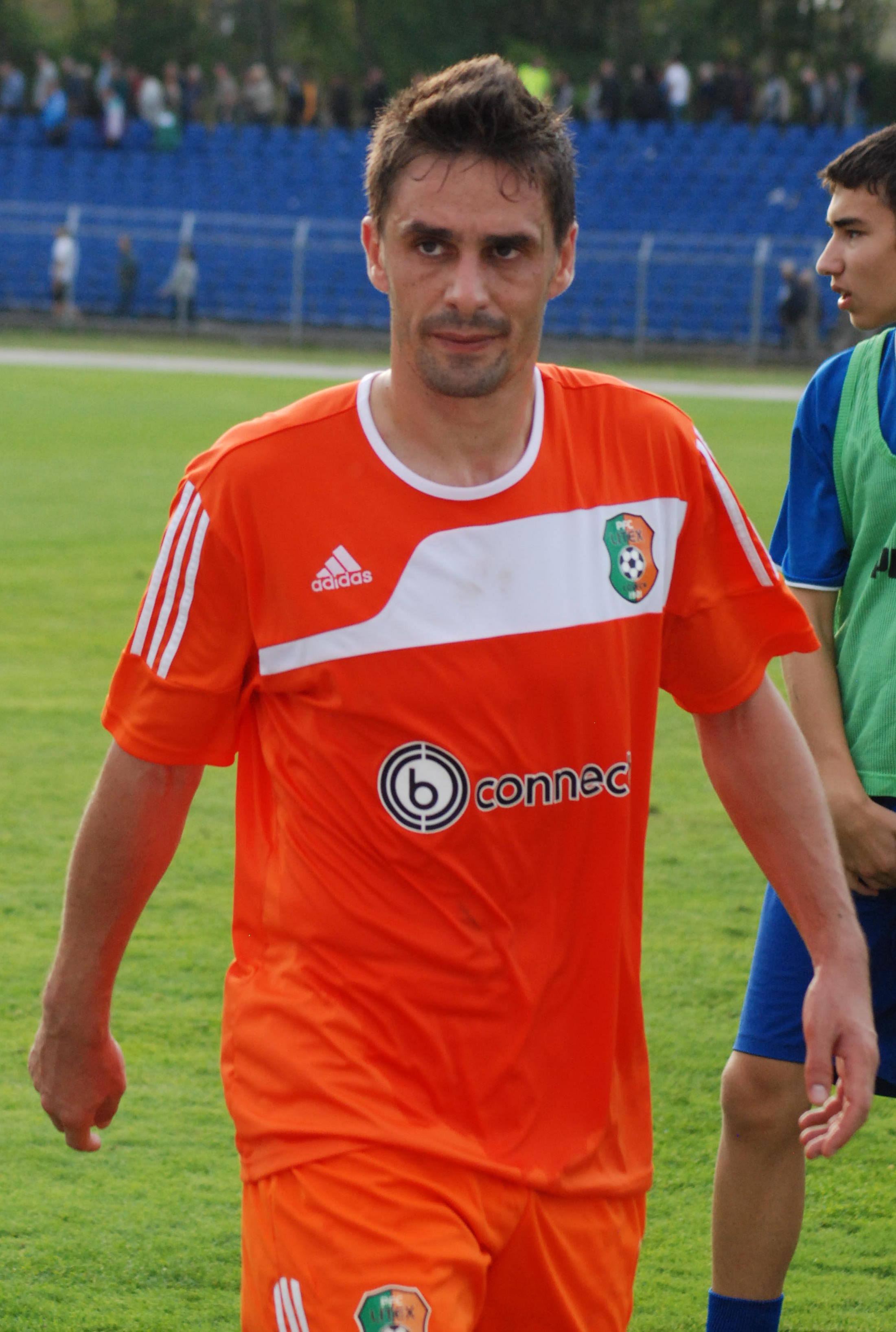 Džemal Berberović